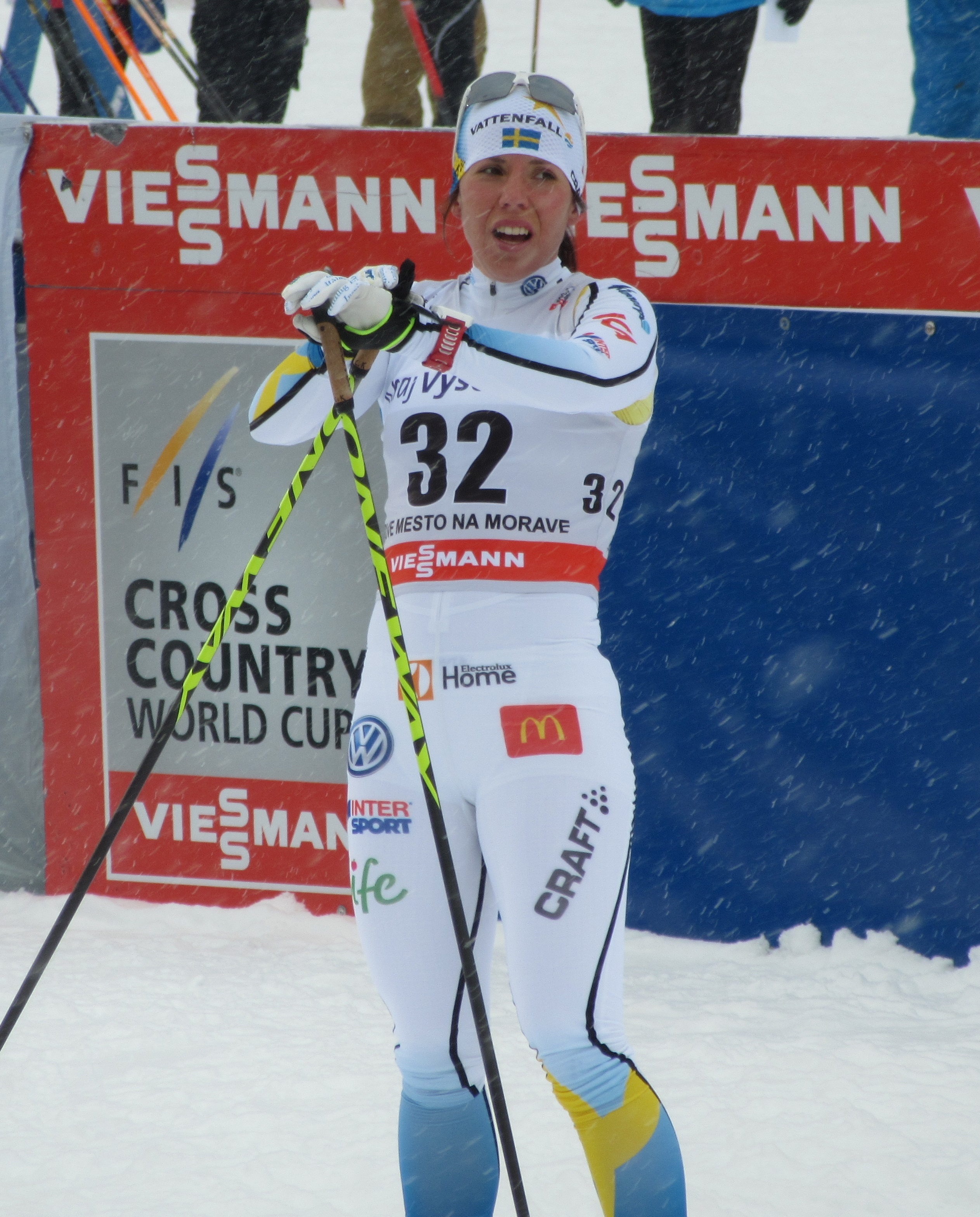 Charlotte Kalla after 10 km free race in Nové Město na Moravě in 2015/2016 World Cup season.